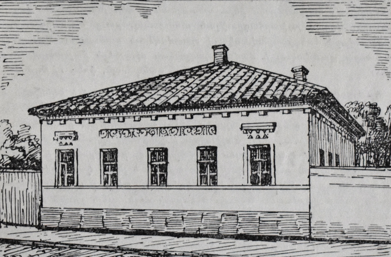 the house of Mikayel Nalbandian's parents in New Nakhichevan, now Roston on Don, Russia